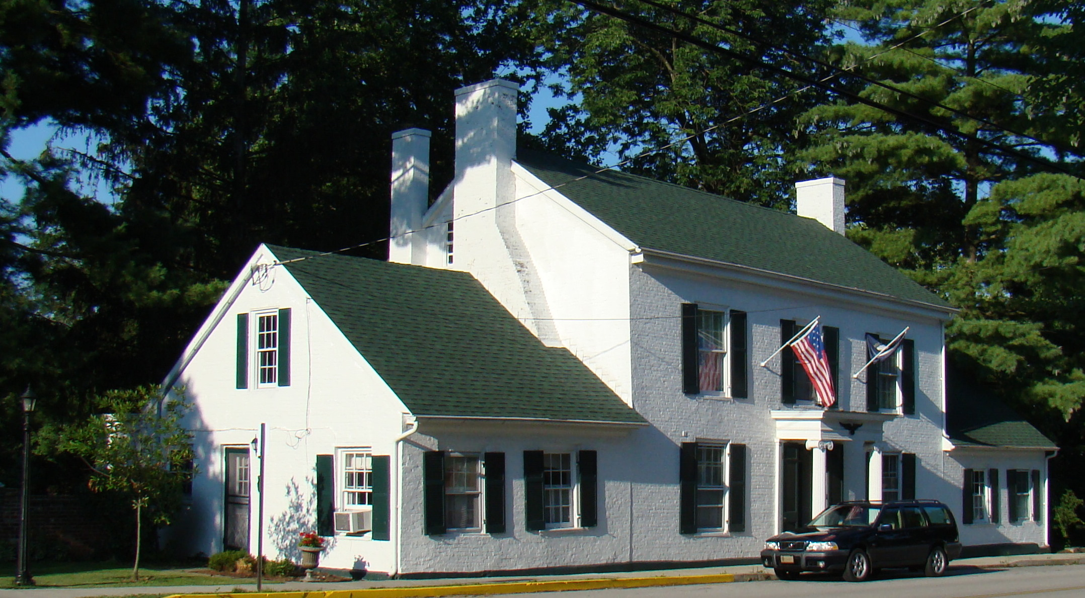 The Cantrill House is an historic building located in Scott County, Kentucky near the Georgetown College campus. The structure has been used as a hemp factory, housing for students, and a residential dwelling. The property was added to the U.S. National Register of Historic Places in 1973.